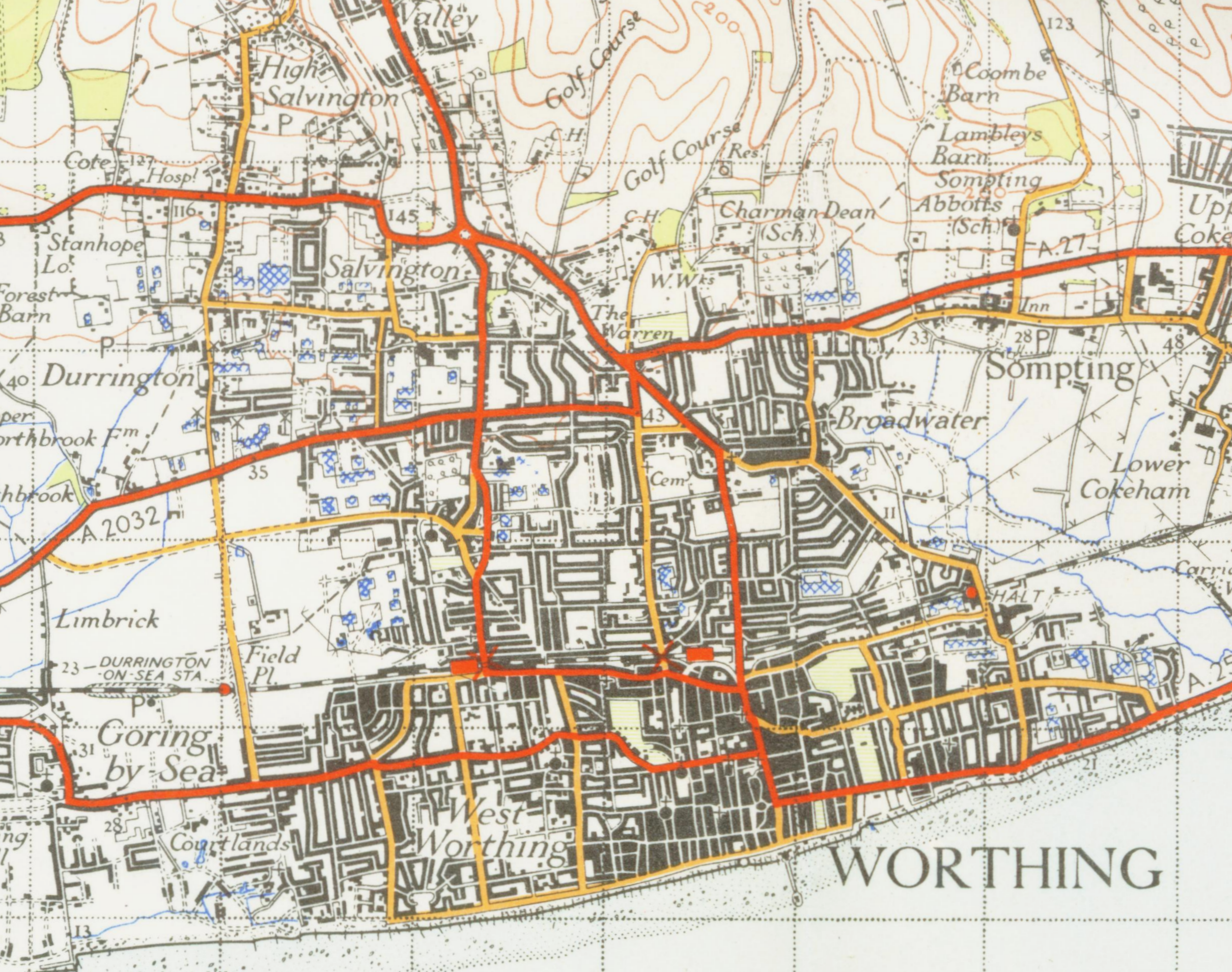 Map of Worthing from 1946 scale 1 inch to the mile scanned at 600DPI